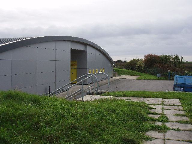 Used to be Skewjack Surf Village, now what? "If there was ever the true, original, definitive surf camp then this was it. Started before 1973, it came to fame during the summers of 75/76 and on". The website commemorates Skewjack Surf Village. Now replaced by a definitely 21st century building with high hedges and fences around it which serves as the British cable terminal for the Fiber-Optic Link Around the Globe (FLAG).